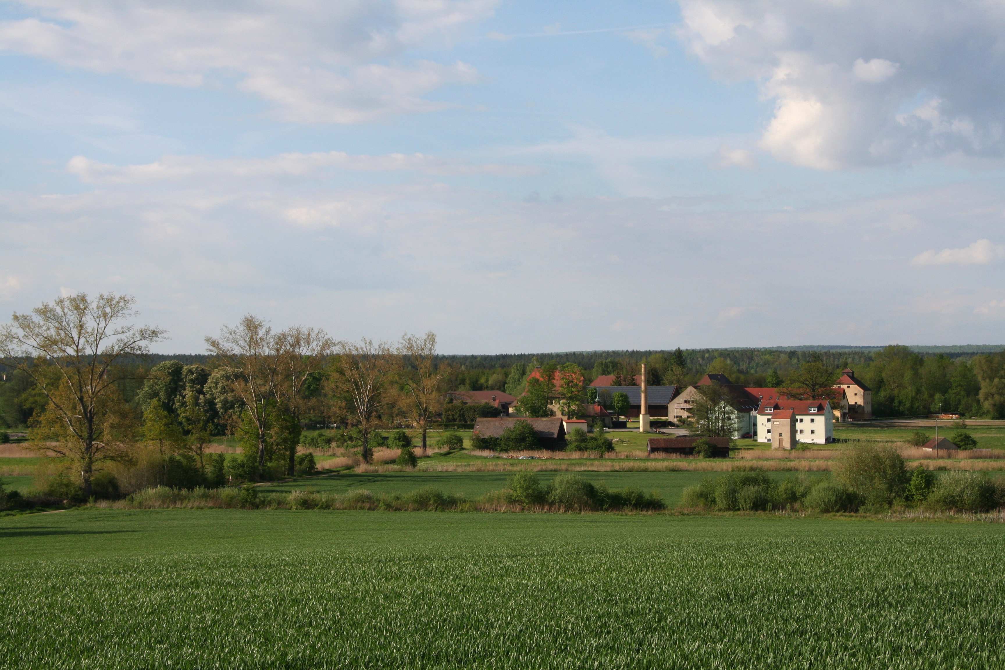 Heringnohe Mai 2010